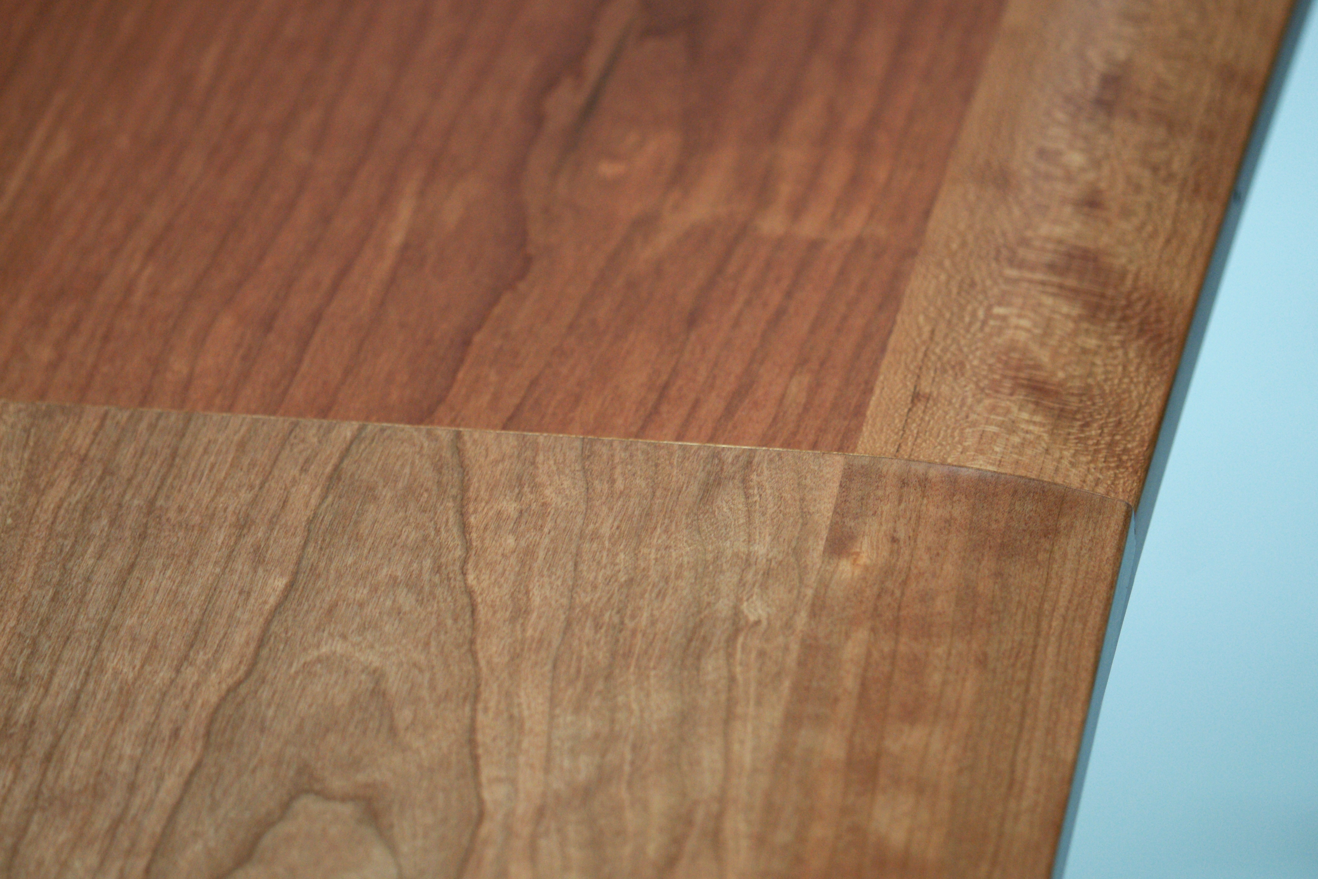 Identical surface treatment of two furniture parts, veneered with American cherry. The wood is from the same piece of lumber. The bright work-piece was stained with white glue, the dark veneered with kaurit glue, and water-UV varnished. The border is 60mm wide and made of solid wood.